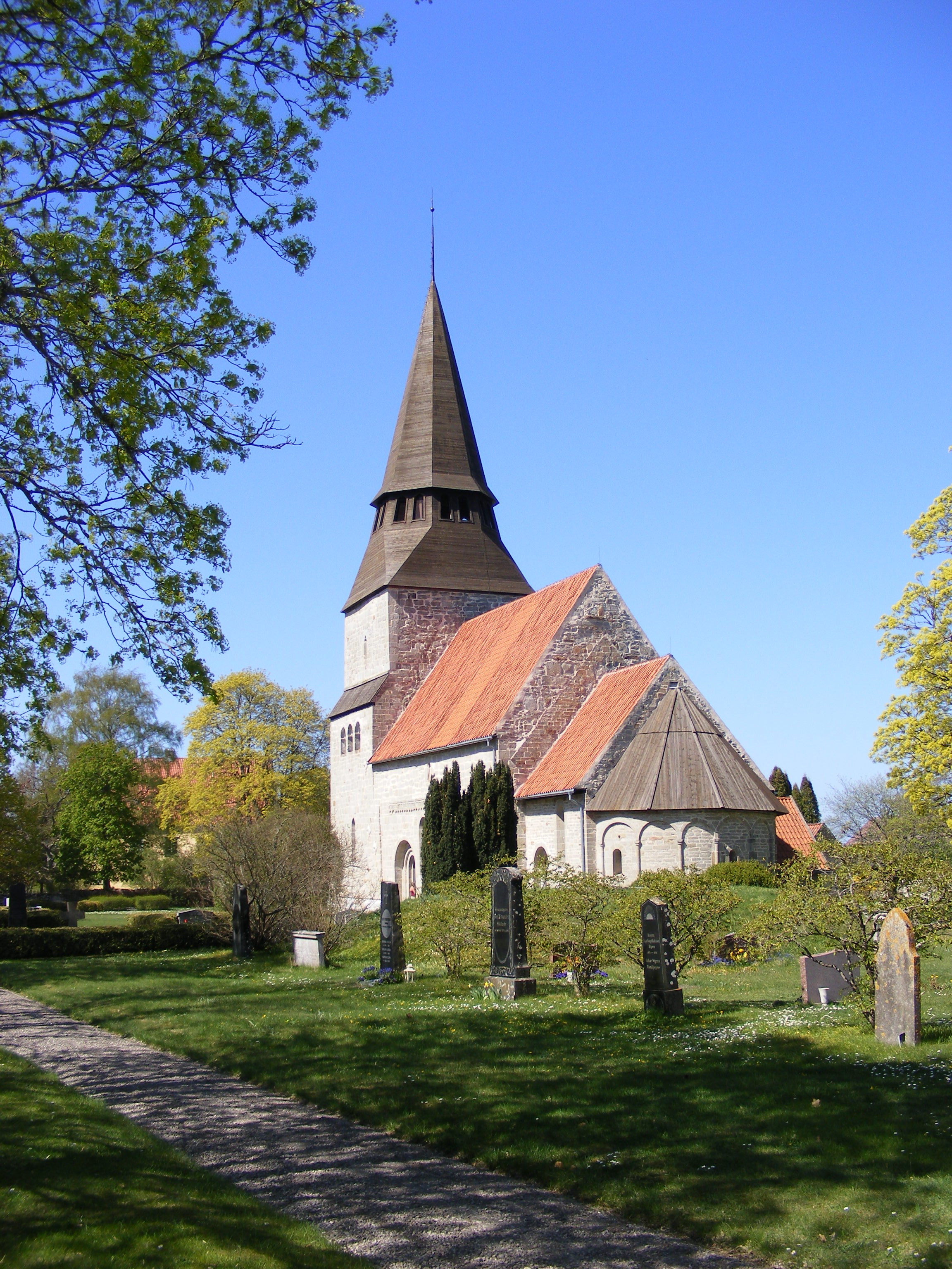 Medieval church, Havdem, Gotland, Sweden